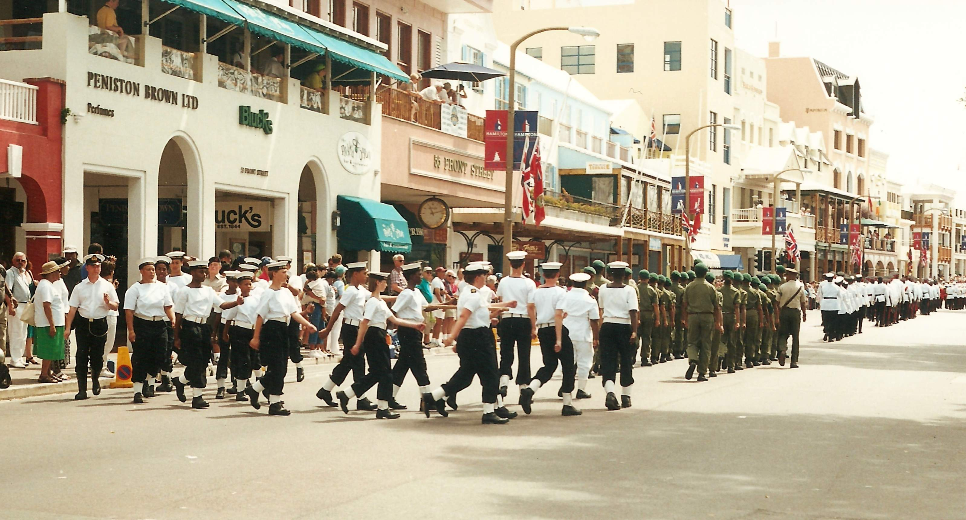 The Queen's Birthday Parade on Front Street, in the City of Hamilton, in the British Overseas Territory of Bermuda, on the 12th of June, 2000. A detachment from the Bermuda Sea Cadet Corps (with one Marine Cadet) follows one from the Bermuda Cadet Corps (in green berets). Far to the fore, the parade is led by a detachment from the Bermuda Regiment (since 2015, the Royal Bermuda Regiment).